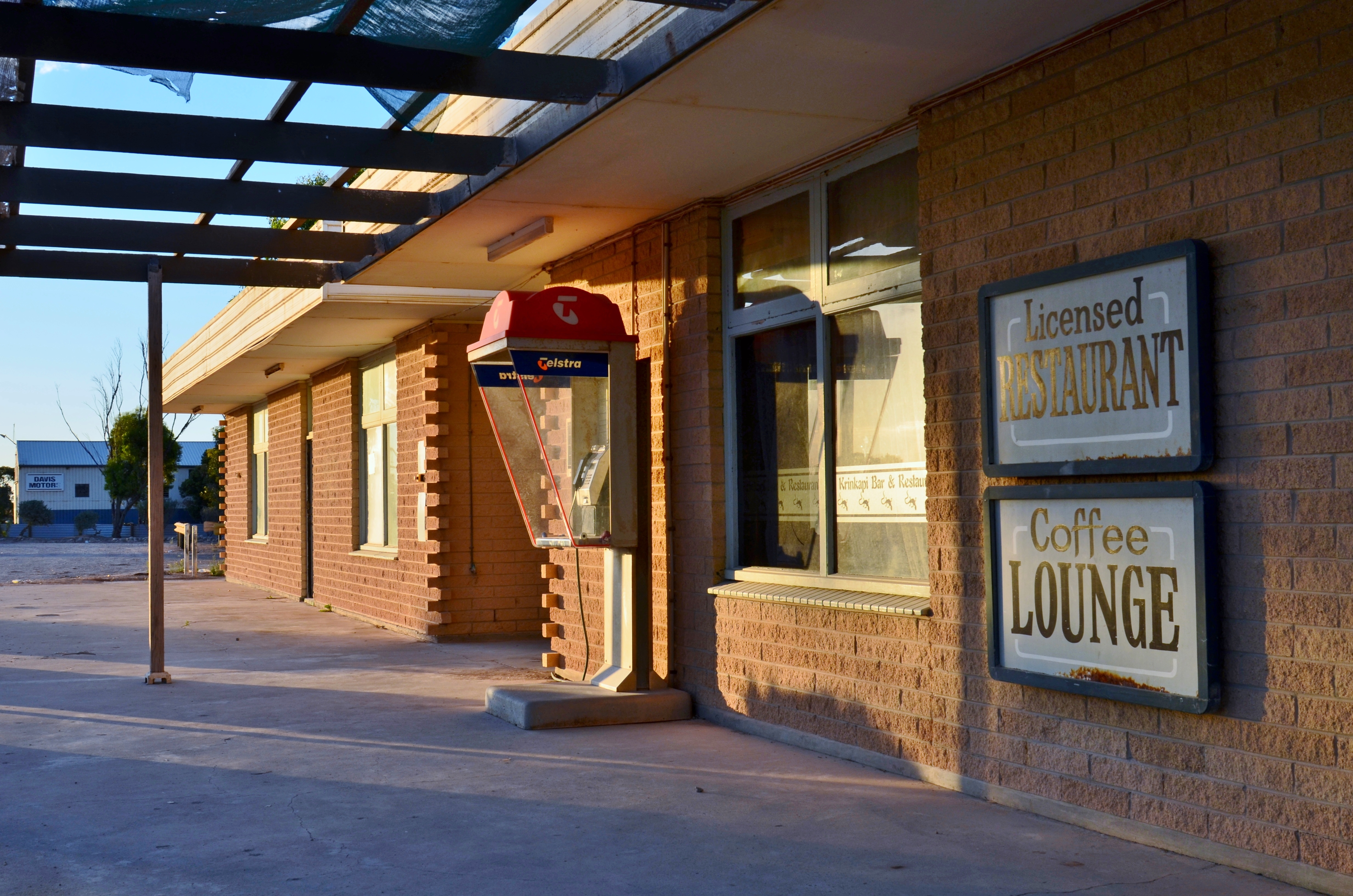 View of the roadhouse at Nundroo, South Australia.